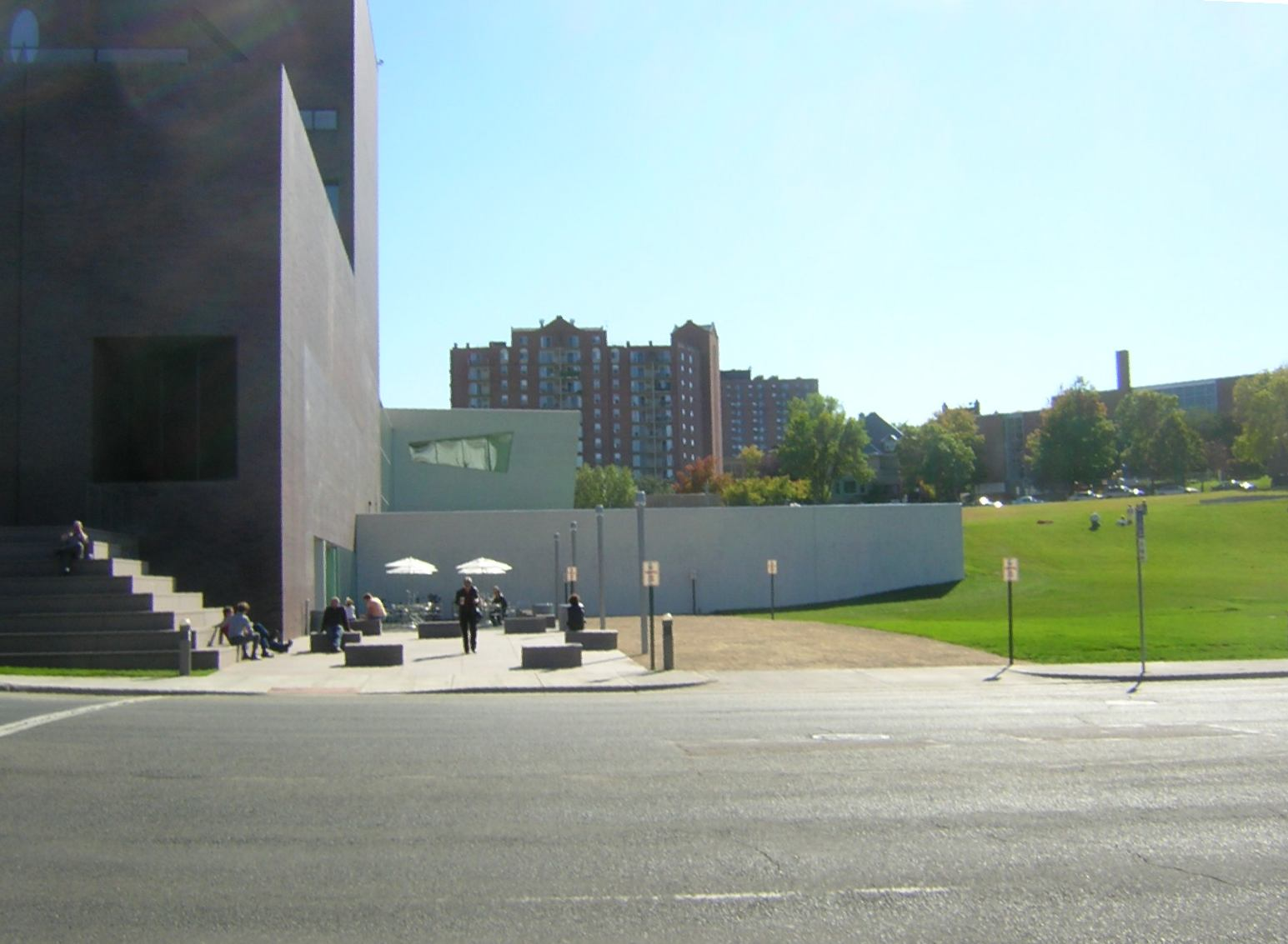 Walker Art Center and at right the site of the first Guthrie Theater, Minneapolis, Minnesota, USA